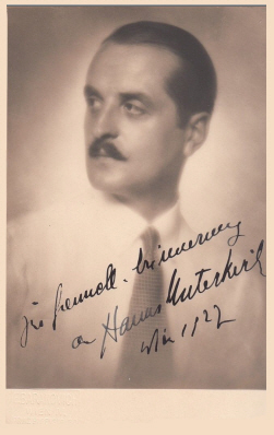 Autographed postcard portrait of Austrian actor and film director Hans Unterkircher (1895–1971) by Edith Barakovich.